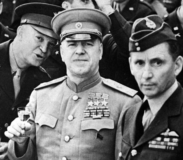 Marshal Zhukov decorates Field Marshal Montgomery with the Russian Order of Victory. Allied chiefs who attended the cermony at Gen. Eisenhower's Headquarters at Frankfurt are about to drink a toast. From left to right: Gen. Dwight Eisenhower, Marshal Zhukov, Air Chief Marshal Sir Arthur Tedder. ID: HD-SN-99-02756